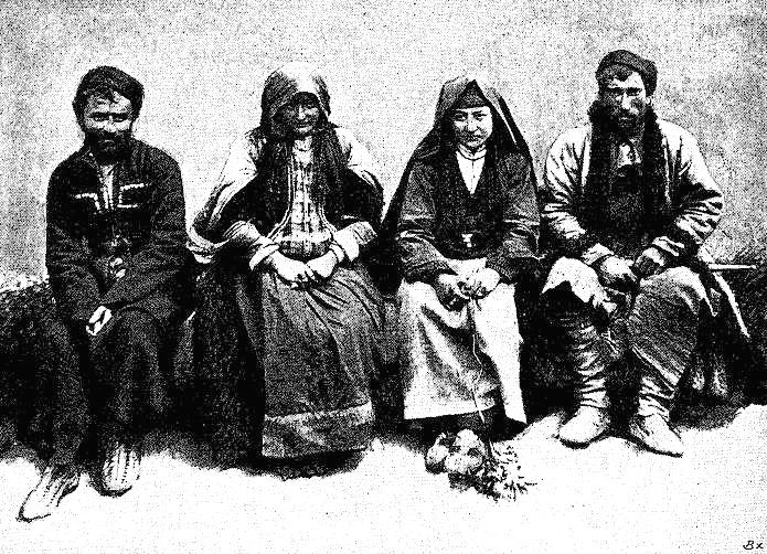 Tushetian peasants